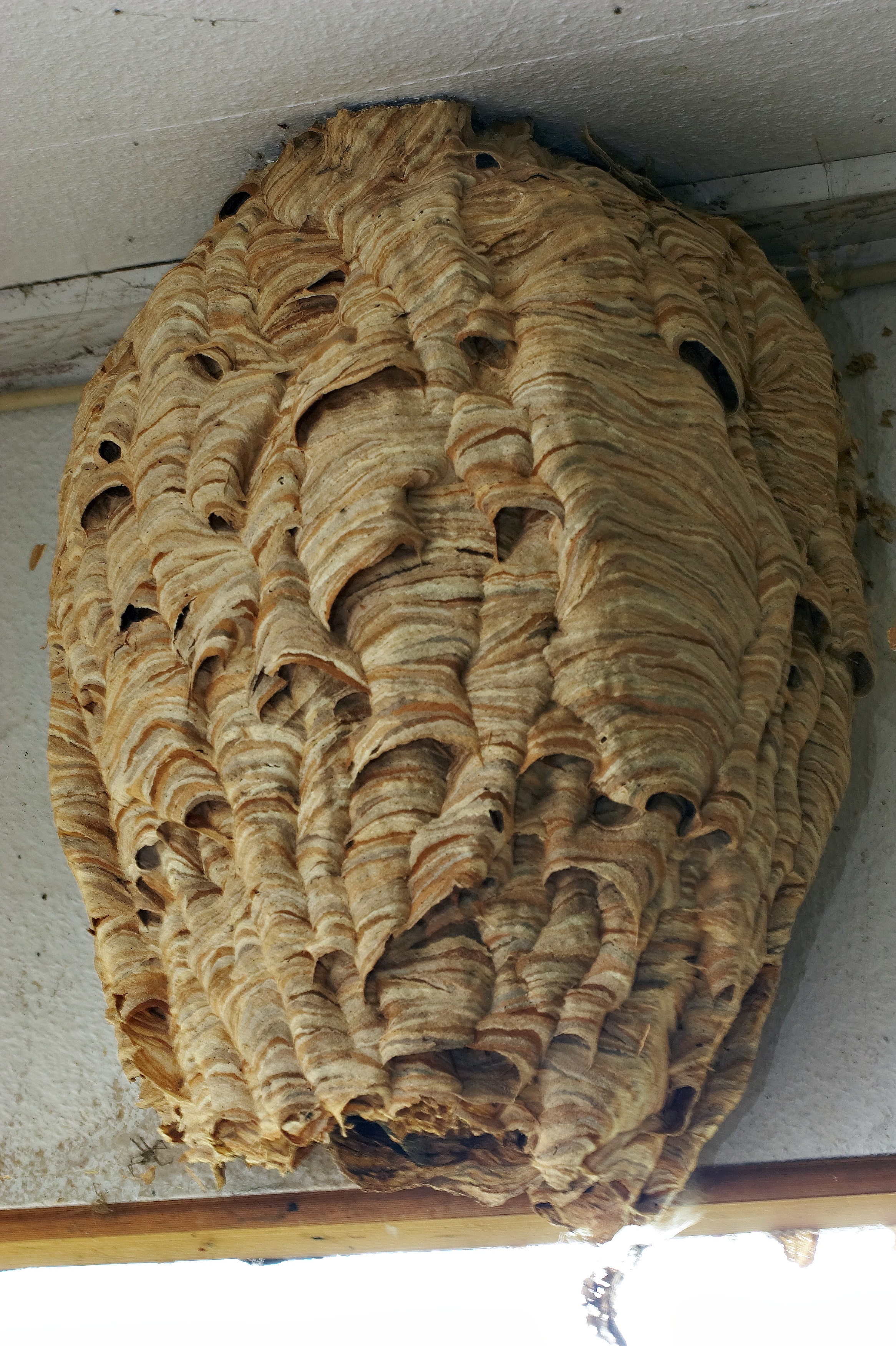 Deserted nest of Vespa crabro (european hornet)